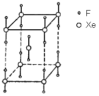 Crystal structure of xenon difluoride (XeF2)